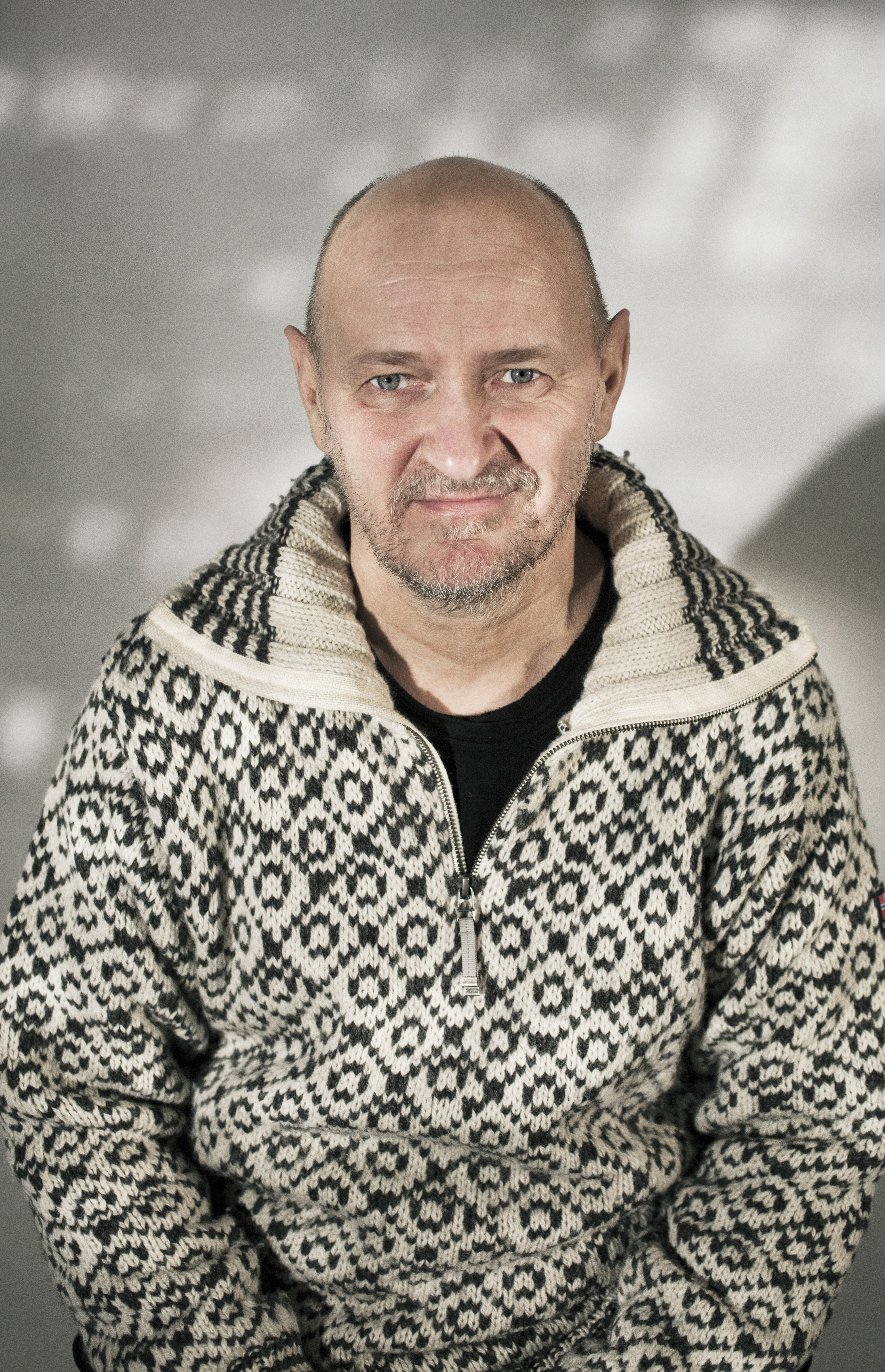 Kiasma, taiteilija/artist Jaakko Niemelä, henkilökuva, taiteilijakuva, kokoelmataiteilija.kuva / Photo:Kansallisgalleria / Petri VirtanenFinlands Nationalgalleri / Petri VirtanenFinnish National Gallery / Petri Virtanen